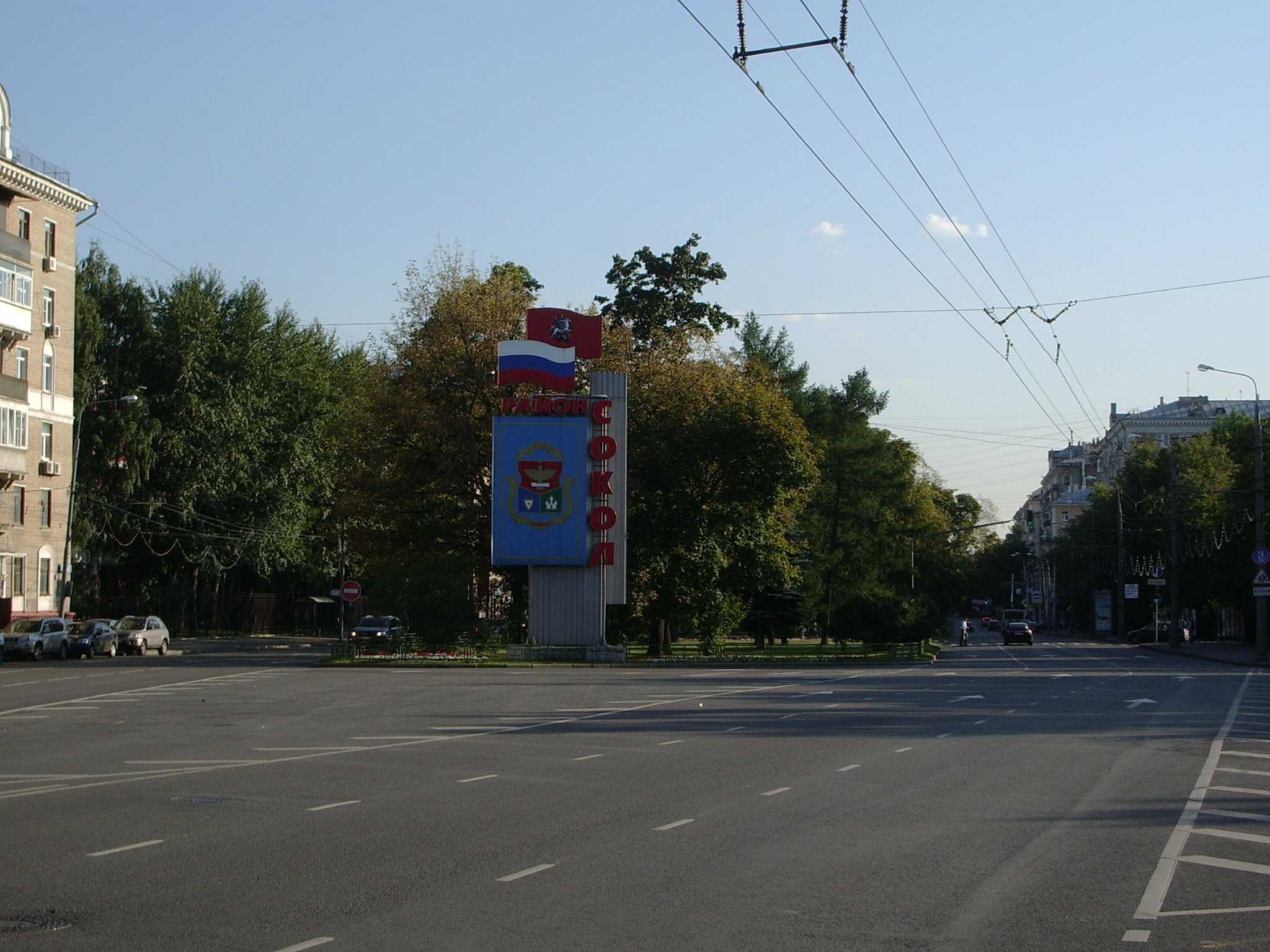 The boulevard of Novopeschanaya street